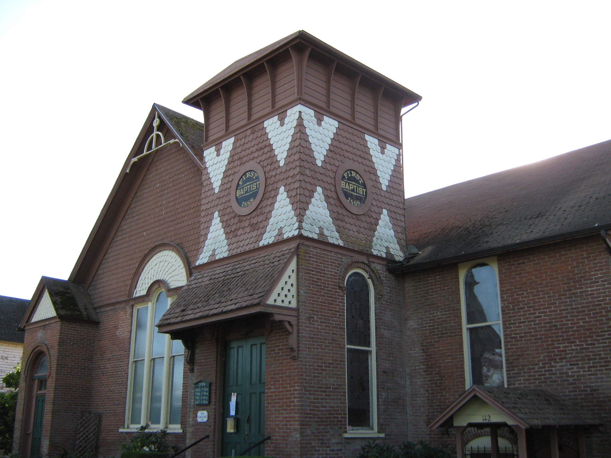 The Independence Heritage Museum in Independence, Oregon, United States. Formerly the First Baptist Church, built of brick in 1888. Within the Independence Historic District.